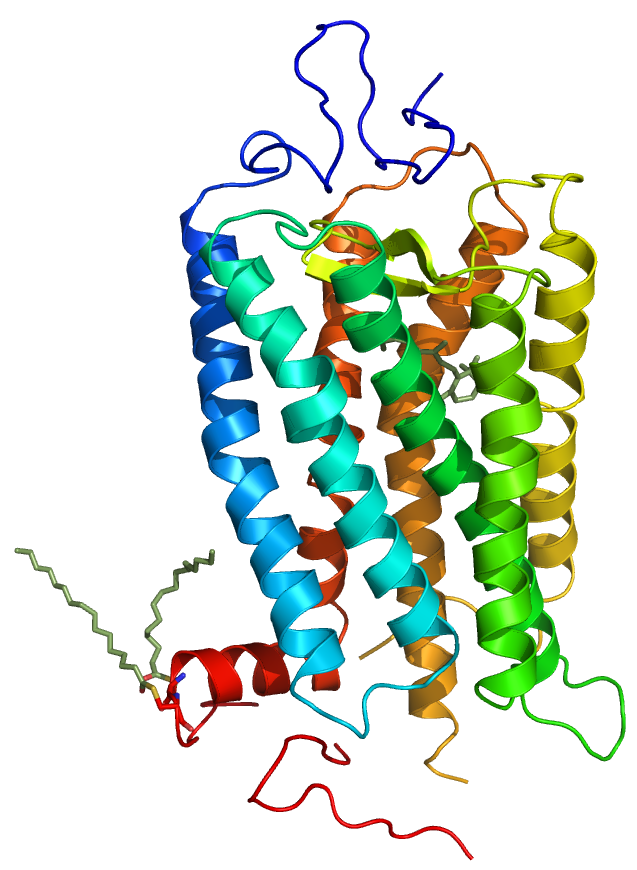 3D structure model of bovine rhodopsin. Derived from the 2.6 Å crystal stucture of rhodopsin (1L9H) with covalently linked retinal and palmityl residues (grey). Structural informations were obtained from and rendered using PyMol 0.99. Blue: TMI. Lightblue: TMII. Cyan: TMIII. Green: TMIV. Yellow: TMV. Organge: TMVI. Red-orange: TMVII. Red: Hx8.